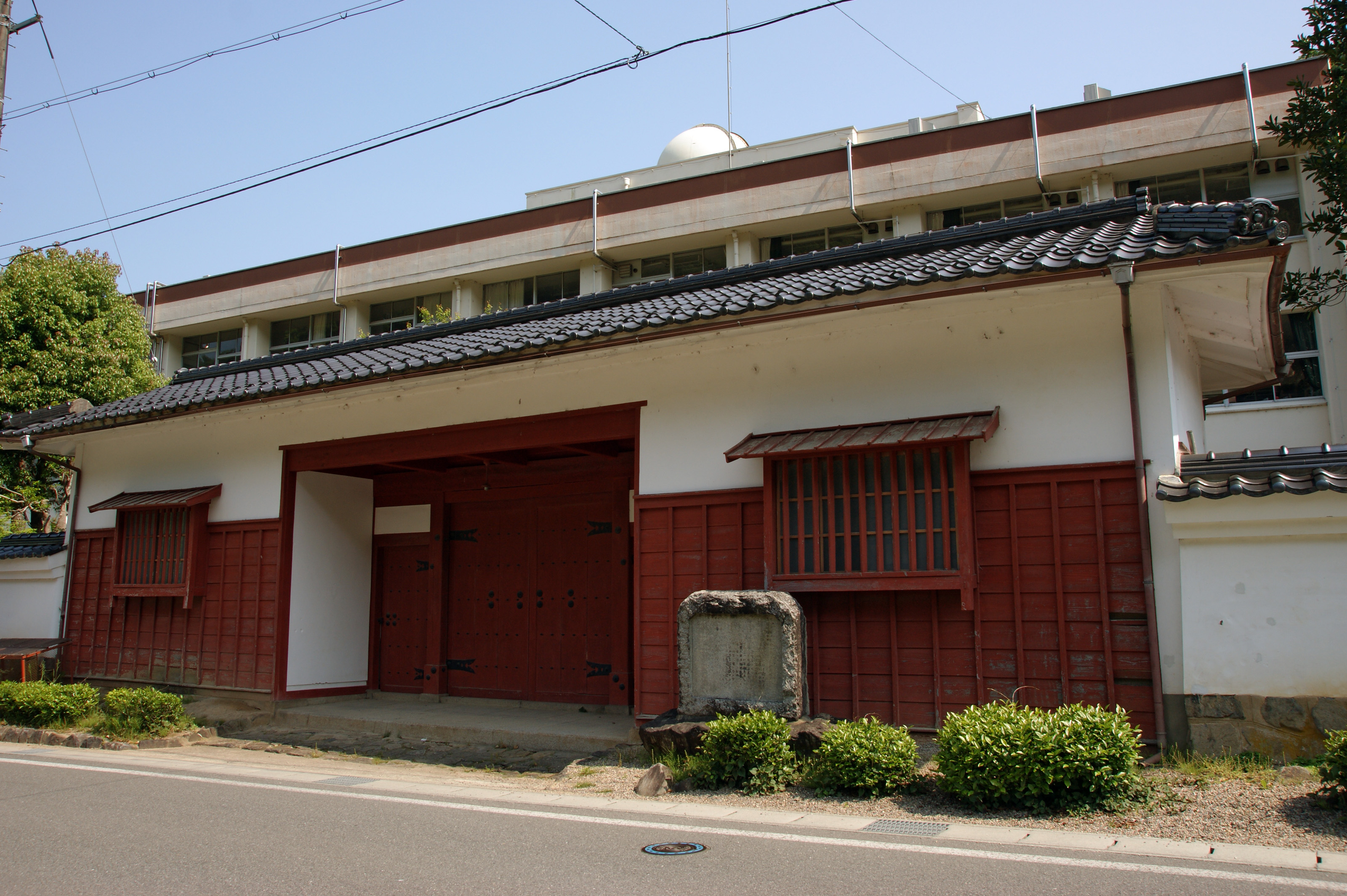 Hyogo Prefectural Izushi High School in Izushi, Toyooka, Hyogo prefecture, Japan